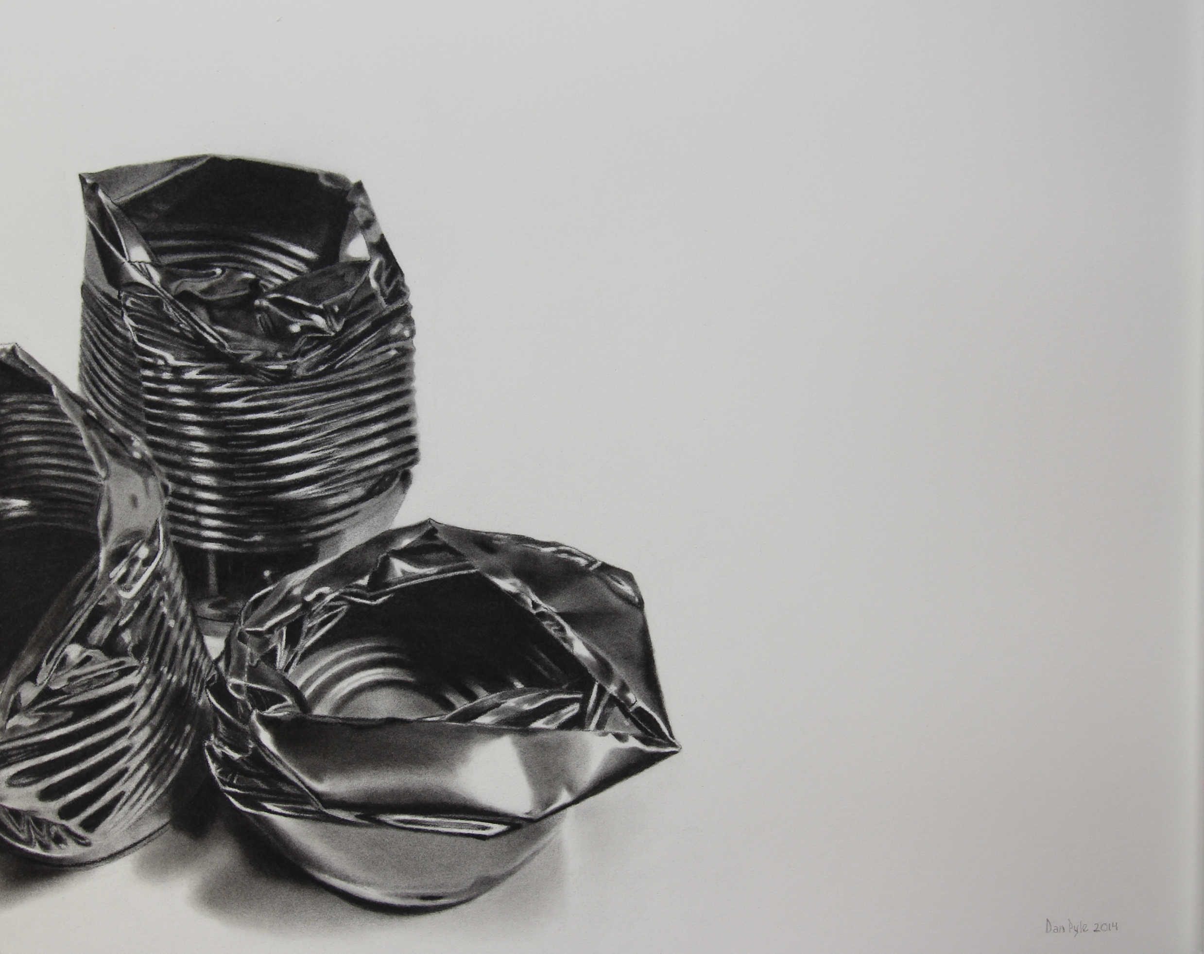 Dan PYLE's painting "Crushed"